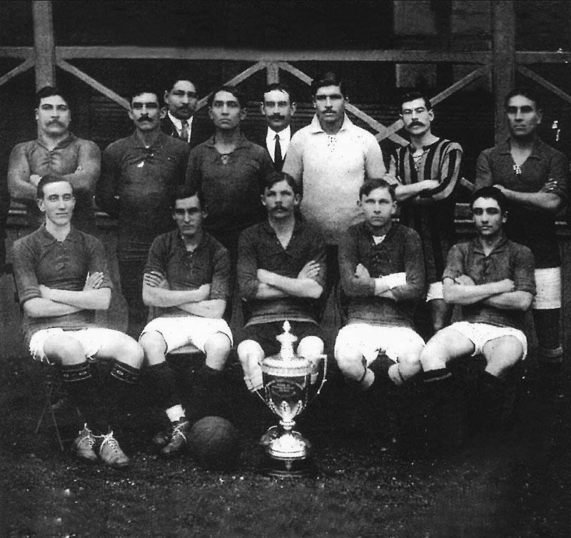 Rosario Central football team that won the Copa Competencia "La Nación" (organized by FAF) in 1913.